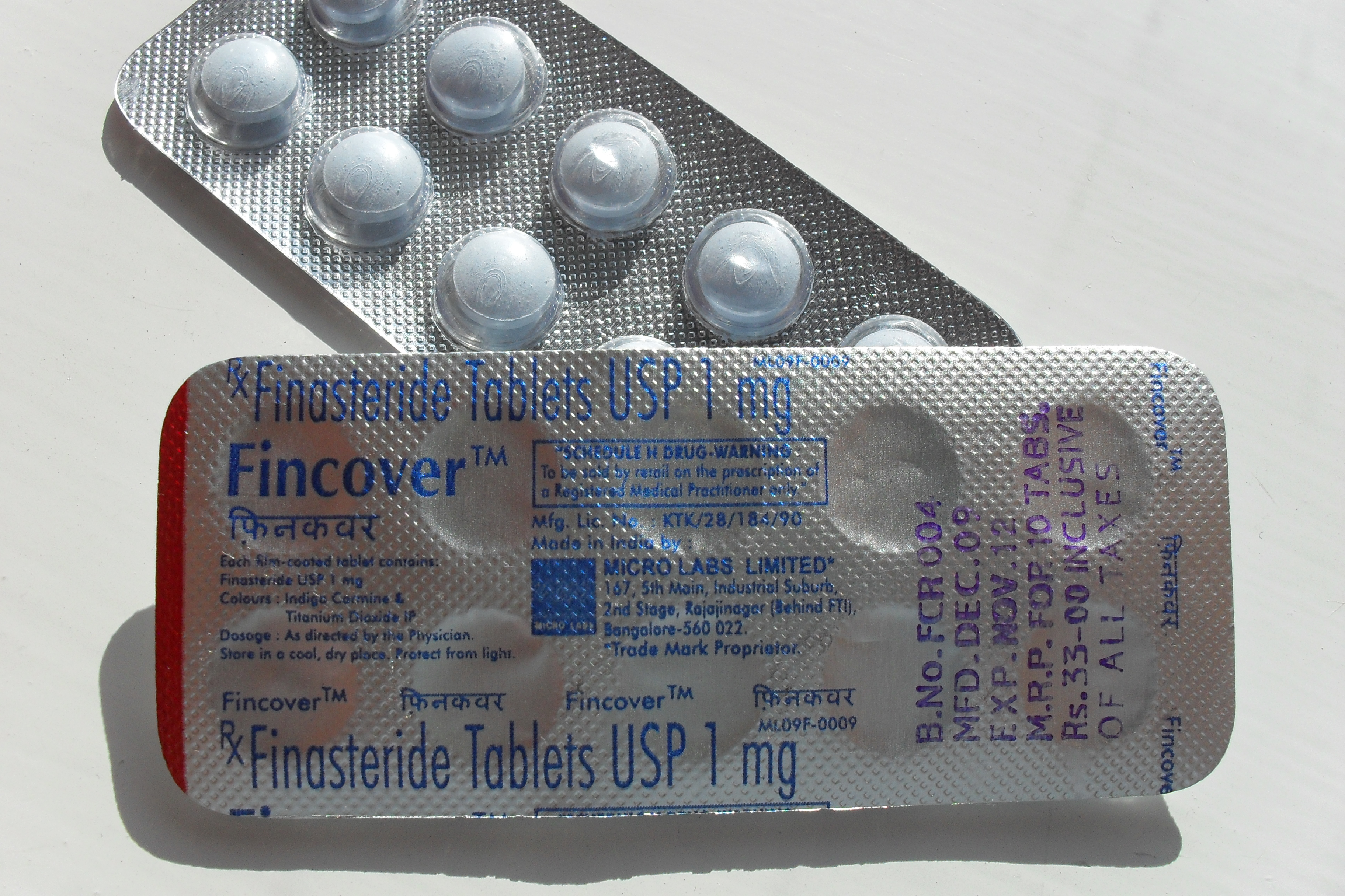 Generic Propecia 1mg tablets (Micro Labs, India)